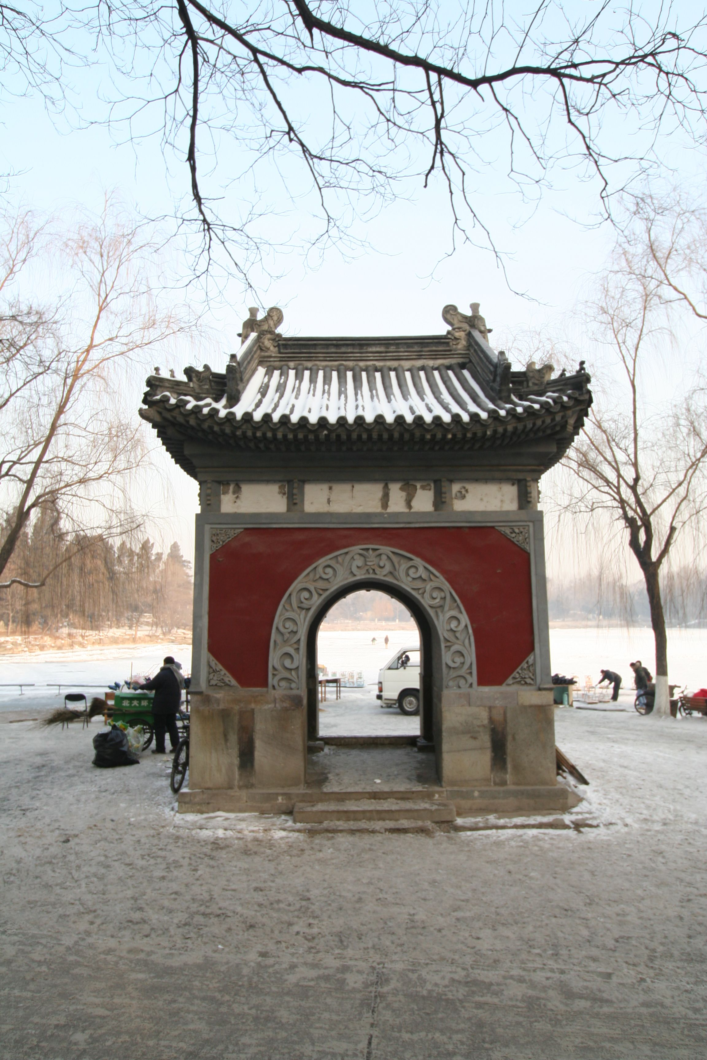 The Peking University campus, Beijing, China.